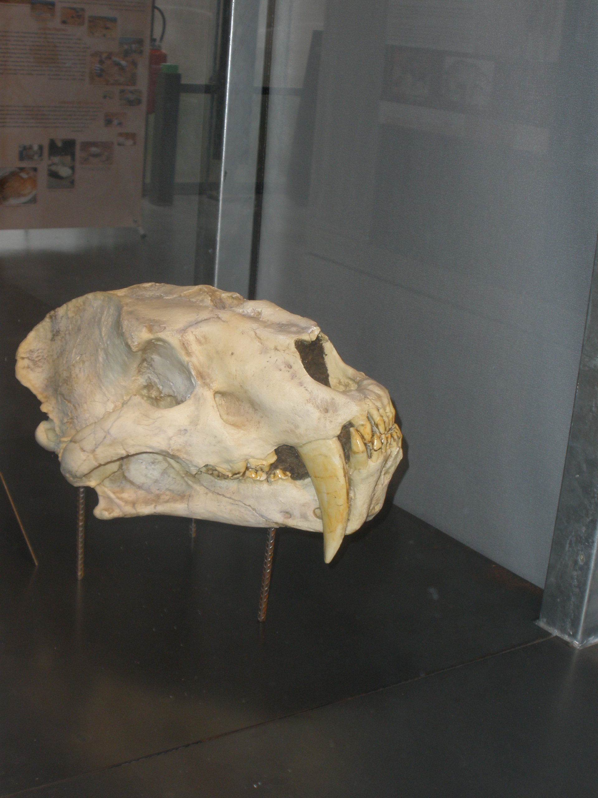 skull of Machairodus giganteus, an extinct felid